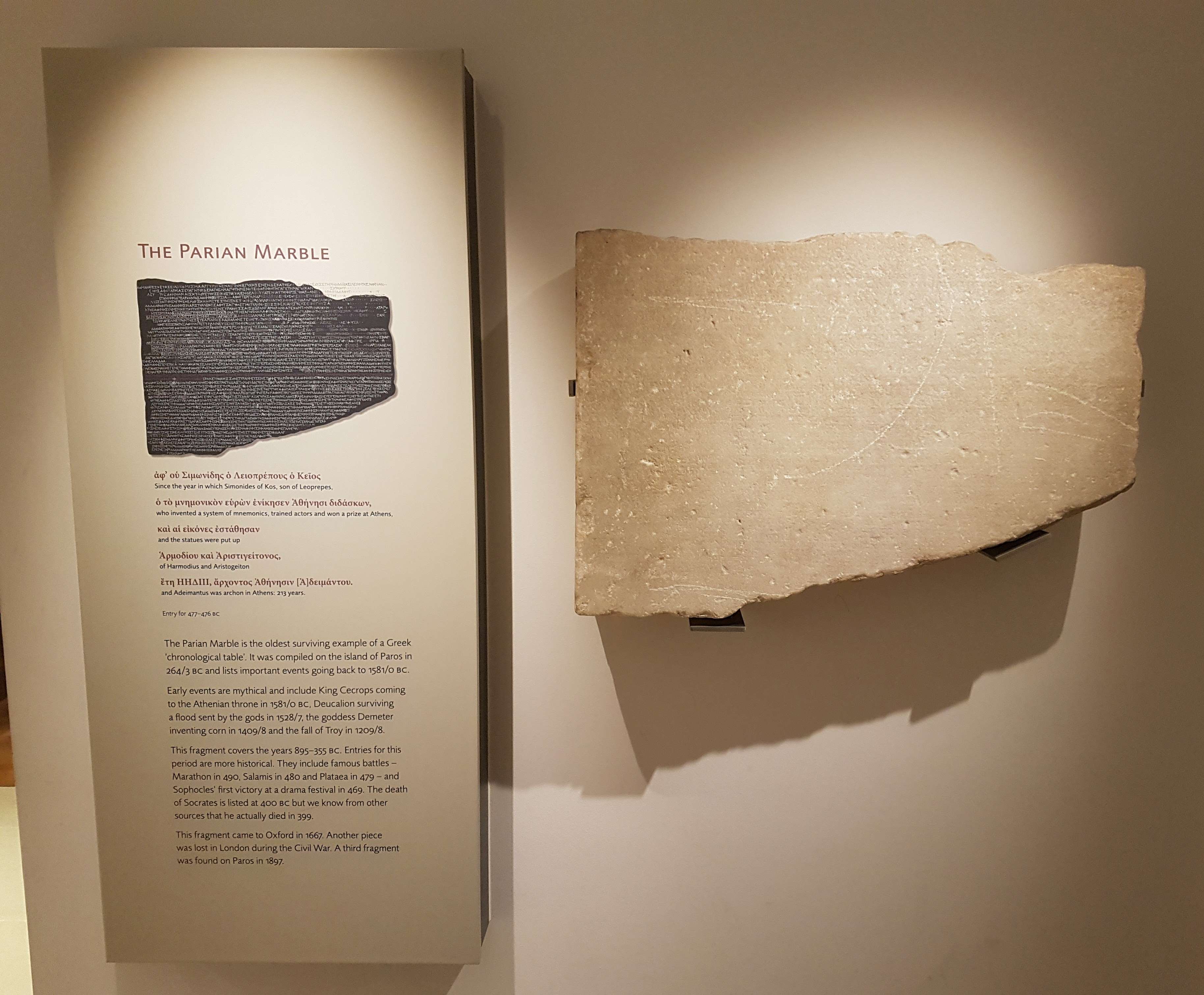 Part of the Parian Marble, a chronicle of mythological and historical events in Greece from 1580 BC to 263 BC. There are 3 parts, one was lost in London during the English Civil war, one is kept the Ashmolean Museum, and one in the Archaelogical Museum of Paros, Greece.